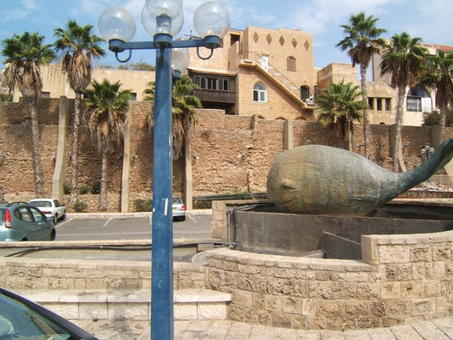 Old Yaffo southen wall remnant